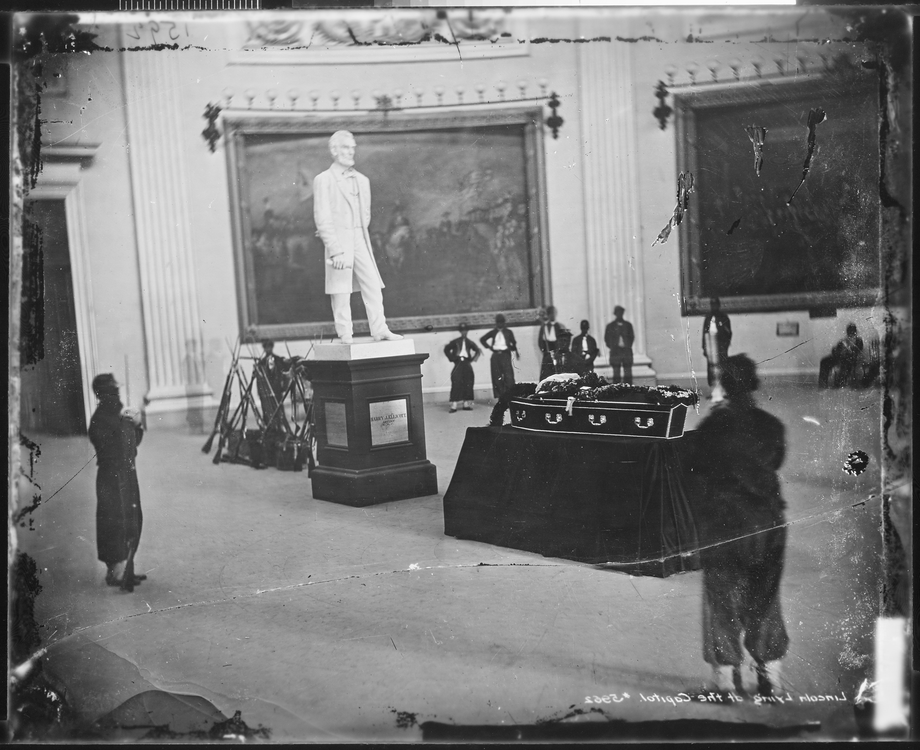 Thaddeus Stevens lying in state in the U.S. Capitol rotunda in August 1868. Members of the Butler Zouaves, an African-American company of the District of Columbia, are serving as honor guards (supposedly 25 guards were on duty, commanded by a Captain Hawkins). The body was brought to the Capitol near mid-day on August 13, and remained on display the rest of the day and through the night. Harper's Weekly reported that five or six thousand people, both white and black, viewed the body. Funeral services were held the morning of August 14 at the Capitol. The written caption on the negative claims the photo is of Lincoln lying in state, and the photo even made it into the first edition of Stefan Lorant's Lincoln: His Life in Photographs (page 121) in 1941 on those grounds, but that is a mistake. Lincoln scholars, following the publication of Lorant's book, determined the true event and the photo was omitted from later editions. The plaster statue of Lincoln behind the casket was credited to "Harry J. Ellicott" on a plate on the pedestal, who was a young sculptor at the time (probably born 1847). It had been in the rotunda for more than a year, as scholars found another photograph of it dated June 1867, and there are other photographs of it dated 1866. The best guess is that Ellicott submitted it for the Lincoln Monument Association's contest for a marble statue, which had been opened not long after Lincoln's death. The contest was eventually won by Lot Flannery, and his finished statue was dedicated on April 15, 1868 (and is still there). Ellicott went on to sculpt several other works, including the Winfield Scott Hancock Memorial on Pennsylvania Avenue, but apparently never did make a finished Lincoln statue. Scope and content: But caption says "Lincoln lying at the Capitol".